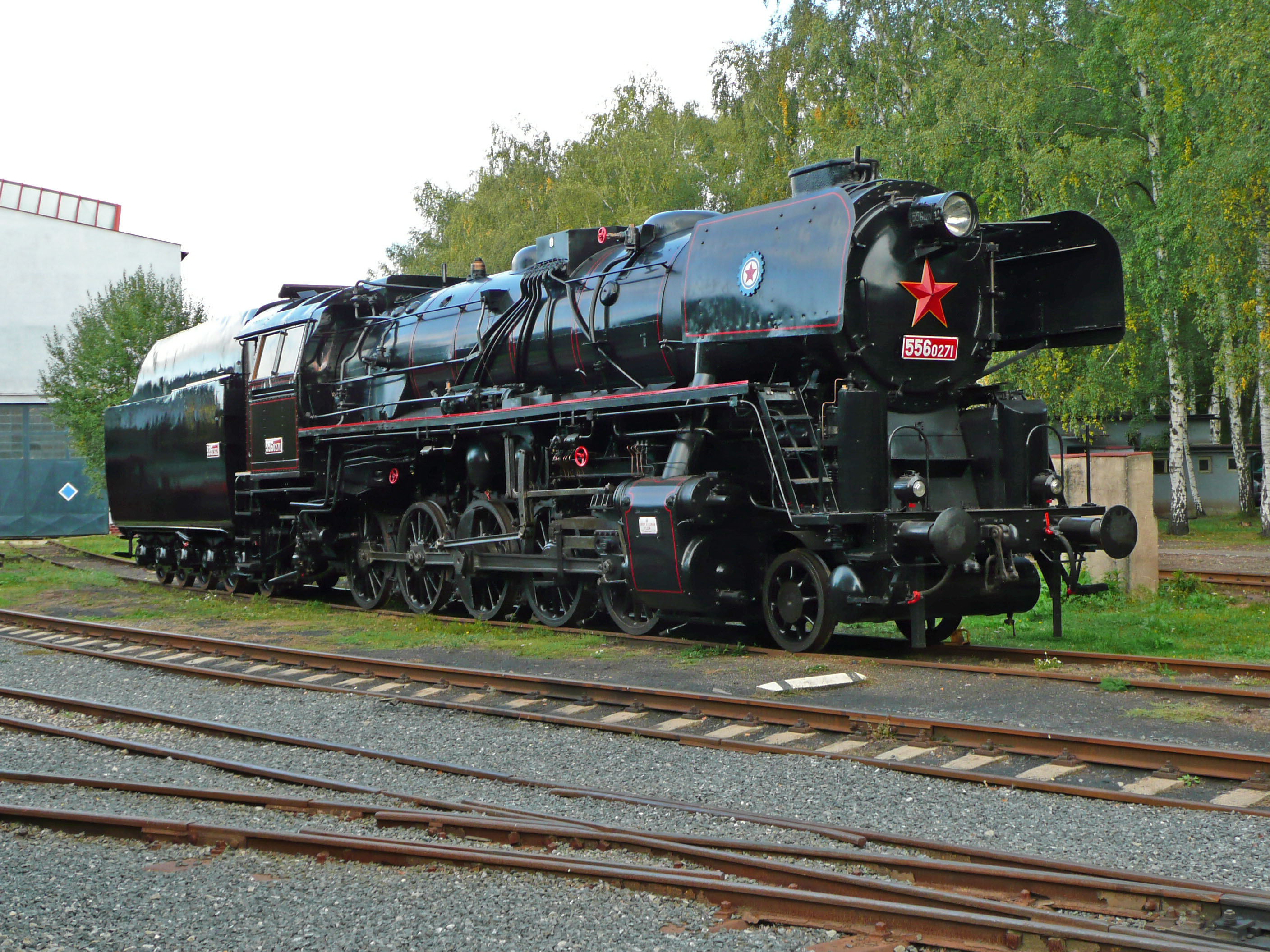 czech steam locomotive 556.0271 in railway museum, Lužná u Rakovníka